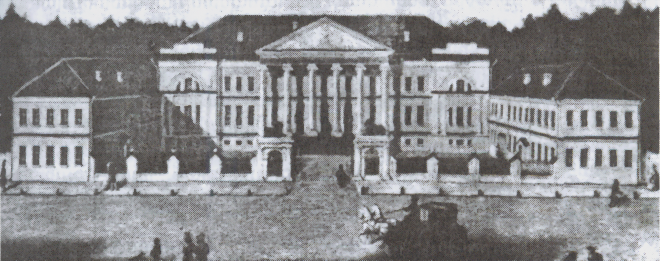 Lazarev Institute of Oriental Languages